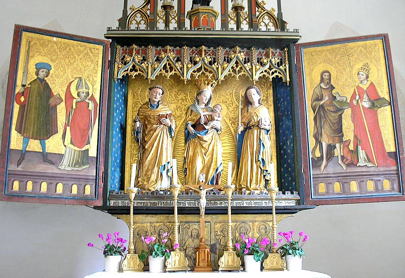 Chapel of ease St. Leonhard (Berghofen, Stadt Sonthofen, Landkreis Oberallgäu, Bavaria, Germany). The high altar (1438)